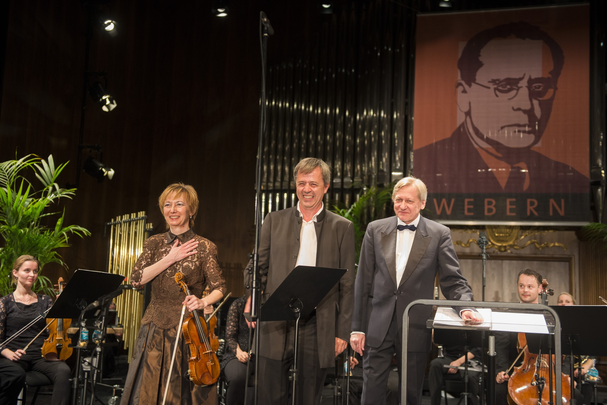 Scene from the Woerthersee Classics Festival 2014